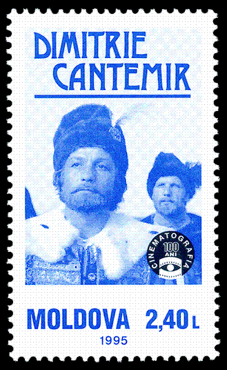 Filmstill “Dimitrie Cantemir” (1973). Scriptwriter and director - Vlad Ioviţă, in the role of Dimitrie Cantemir - actor Mihai Volontir. Stamp of Moldova